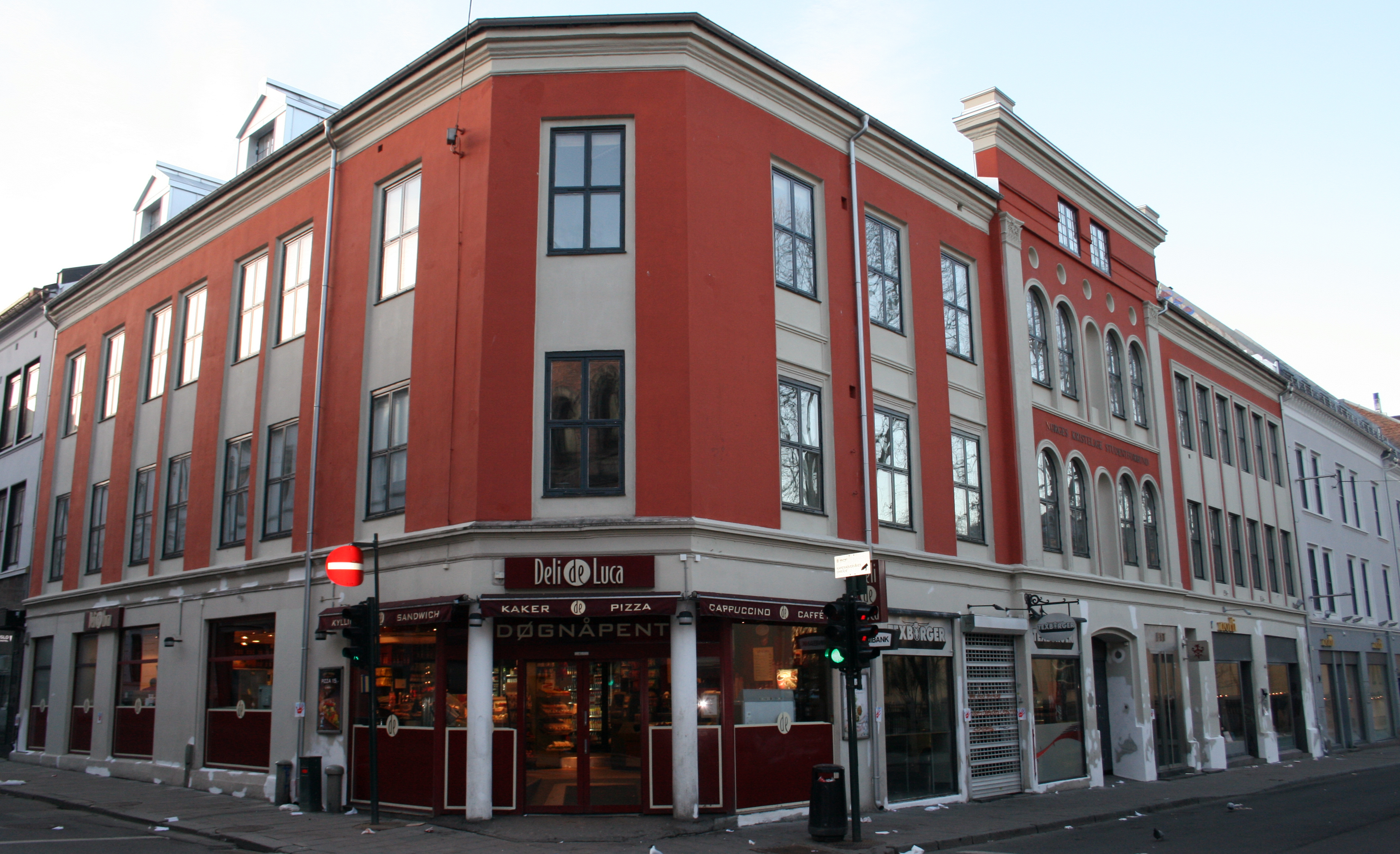 Universitetsgata 20 in Oslo